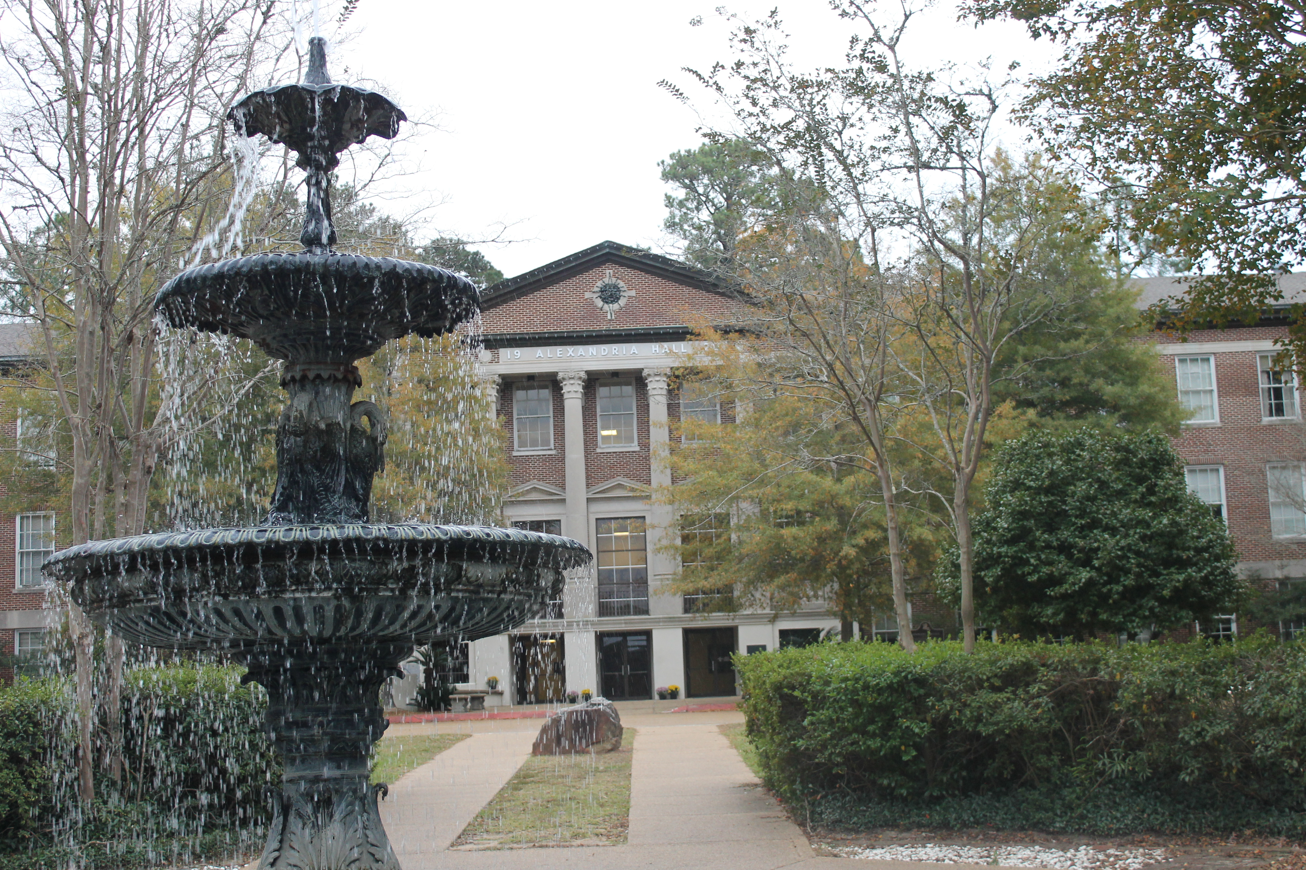 Alexandria Hall at Louisiana College in Pineville, LA